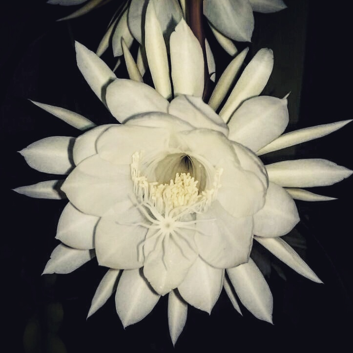 Nishagandhi/Brahma Kamalam or Queen of the Night in Bloom